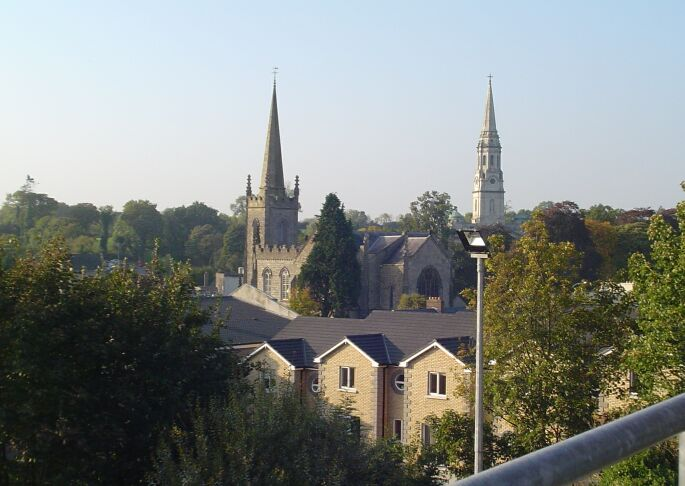 Cavan town, Ireland. Overview - Church of Ireland on the left, Cathedral of Saints Patrick and Felim on the right.